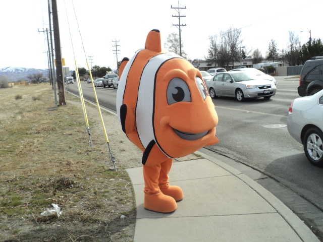 Someone costumed as Nemo advertising the Idaho Aquarium in February 2013.